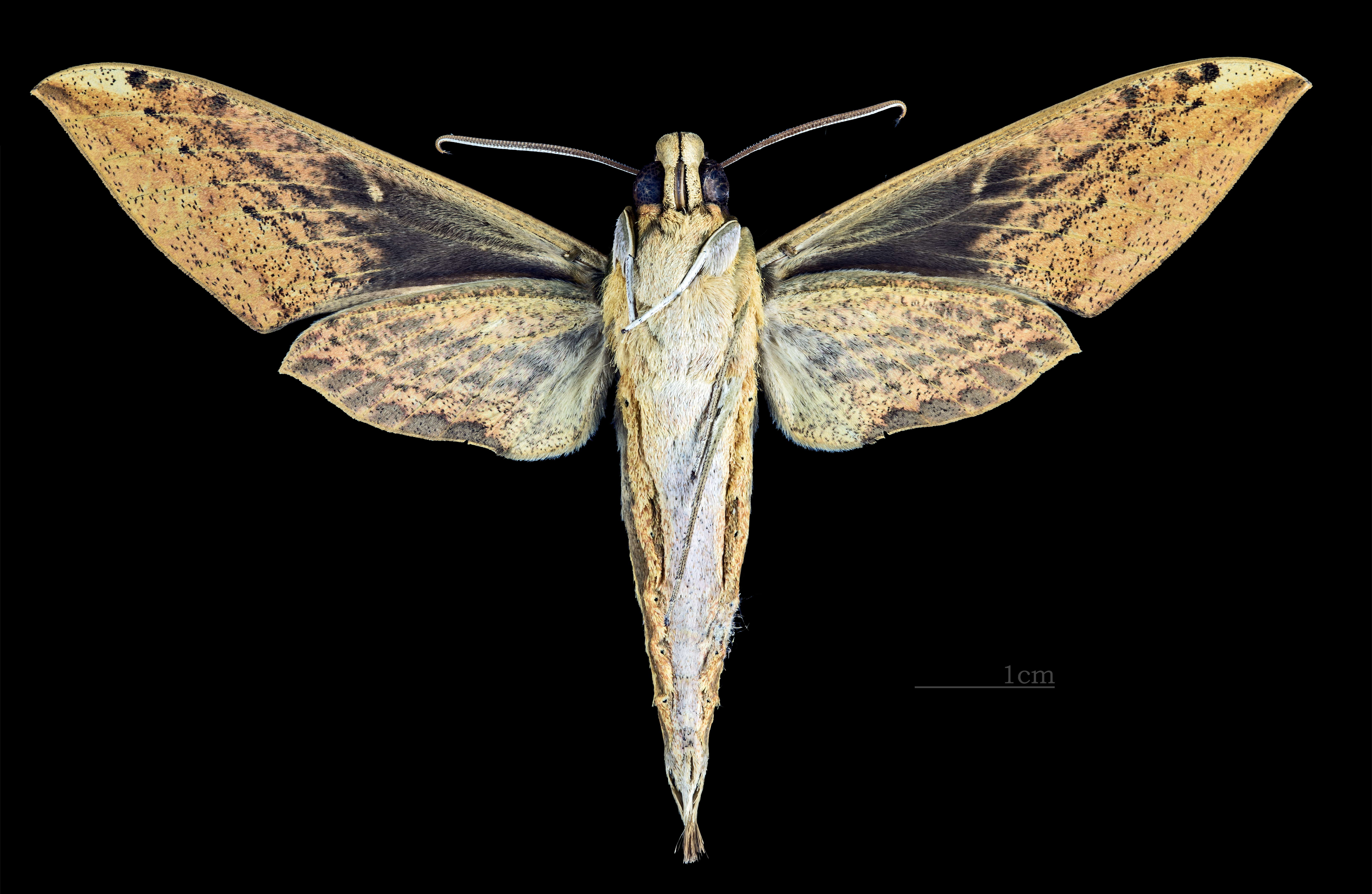 Xylophanes crotonis - △ Ventral side